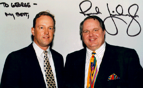 George Radanovich and Rush Limbaugh